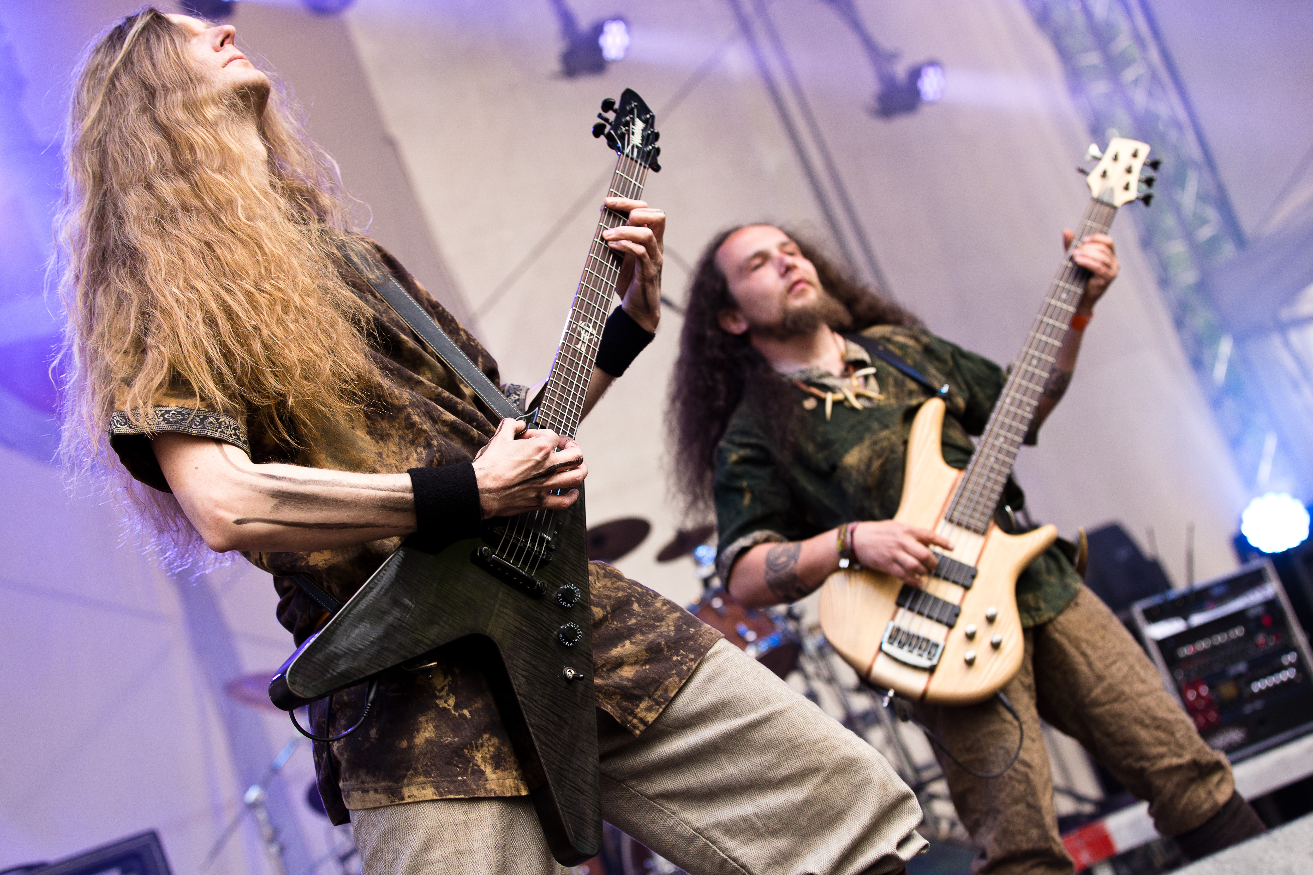 The German pagan metal band Gernotshagen at the 25. Wave-Gotik-Treffen 2016 in Leipzig/Germany.